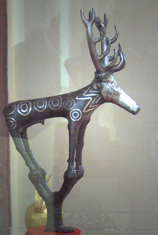 Stag statuette, symbol of a Hittite male god; bronze (with silver inlay) religious standard ; height: 52.5 cm; found in the royal tombs in Alacahöyük; 2100-2000 BC; Product of Hattian art; Museum of Anatolian Civilizations, Ankara, Turkey